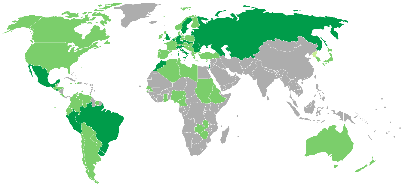 Qualification for the 1970 FIFA World Cup Country didn't participate Country withdrew or entry wasn't accepted by FIFA Country participated in the qualification tournament Country qualified to the finals